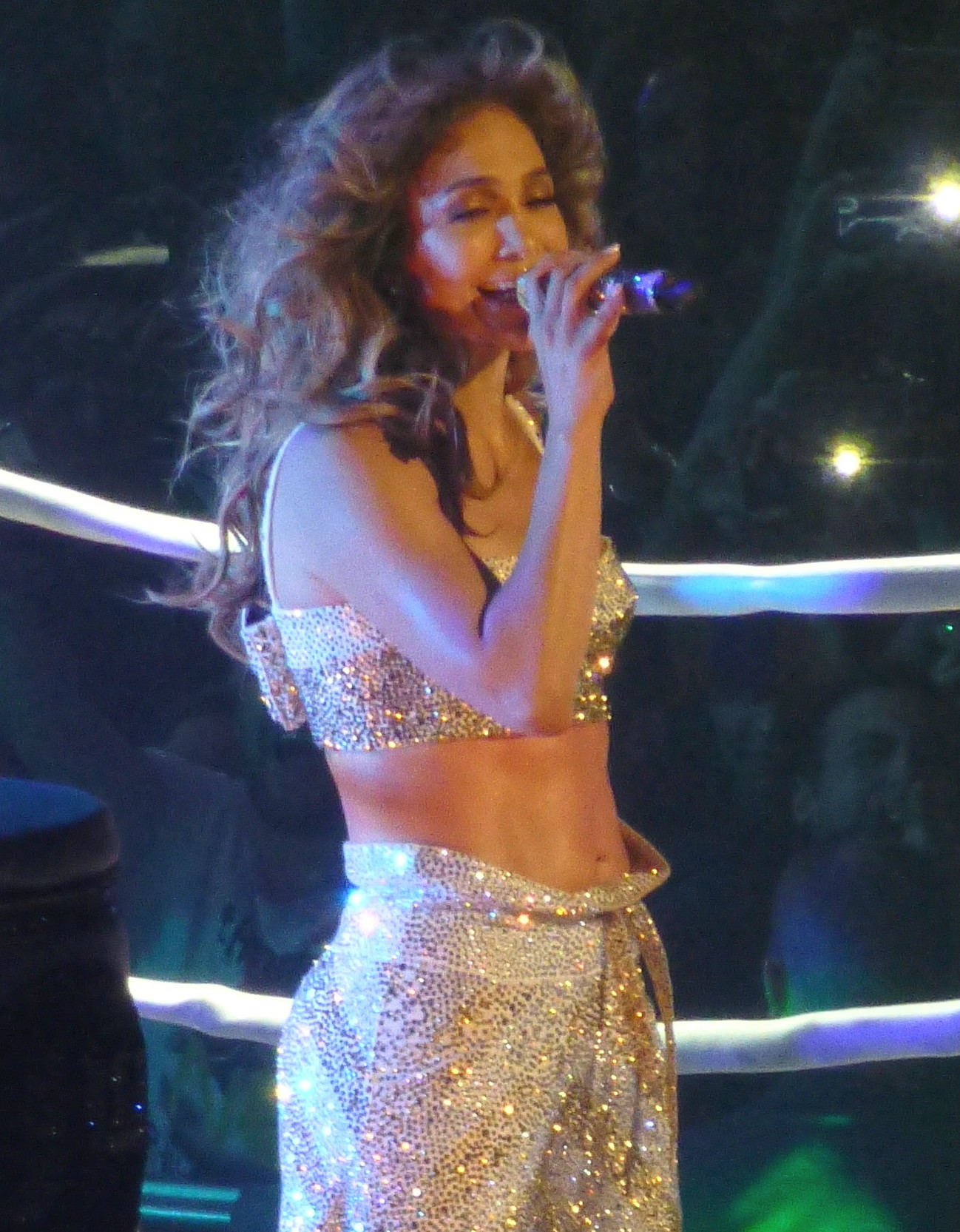 Jennifer Lopez in concert at Paris Bercy in the "Dance Again World Tour" in October 2012.